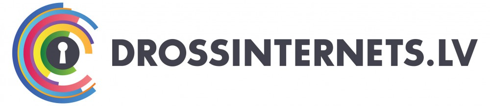 Drošaka Interneta centra logo